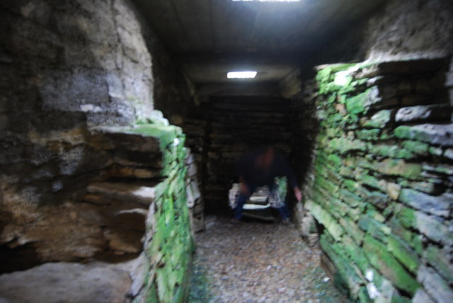 Inside the chambered cairn on the Holm of Papa Westray Taken without flash or tripod, hence slight wobble - down a ladder via the roof and an excellent chambered cairn, 2 sections (one at each end) that need a further crawl to get into